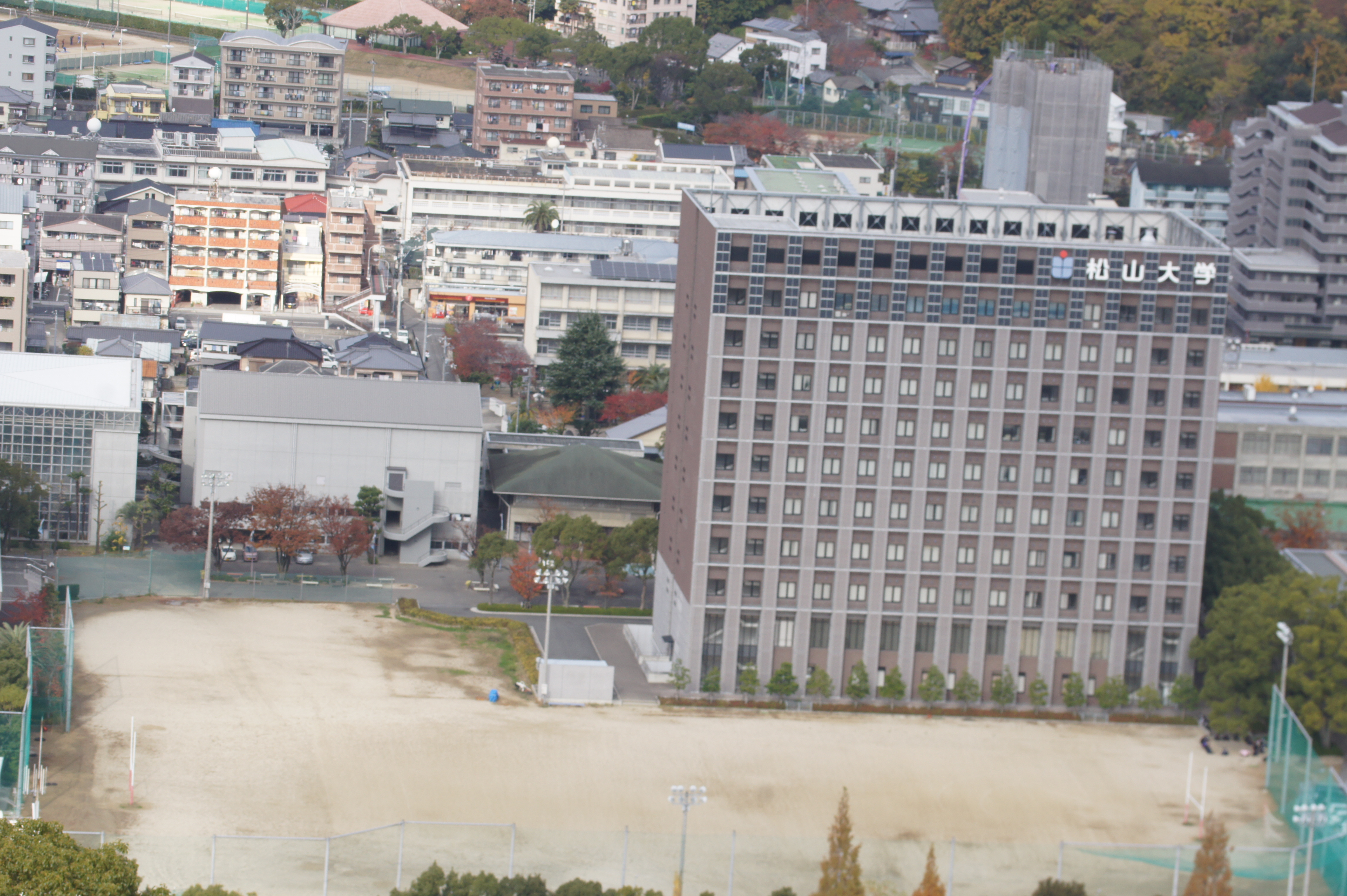 Bunkyo Campus, Matsuyama University, viewed from Matsuyama Castle.